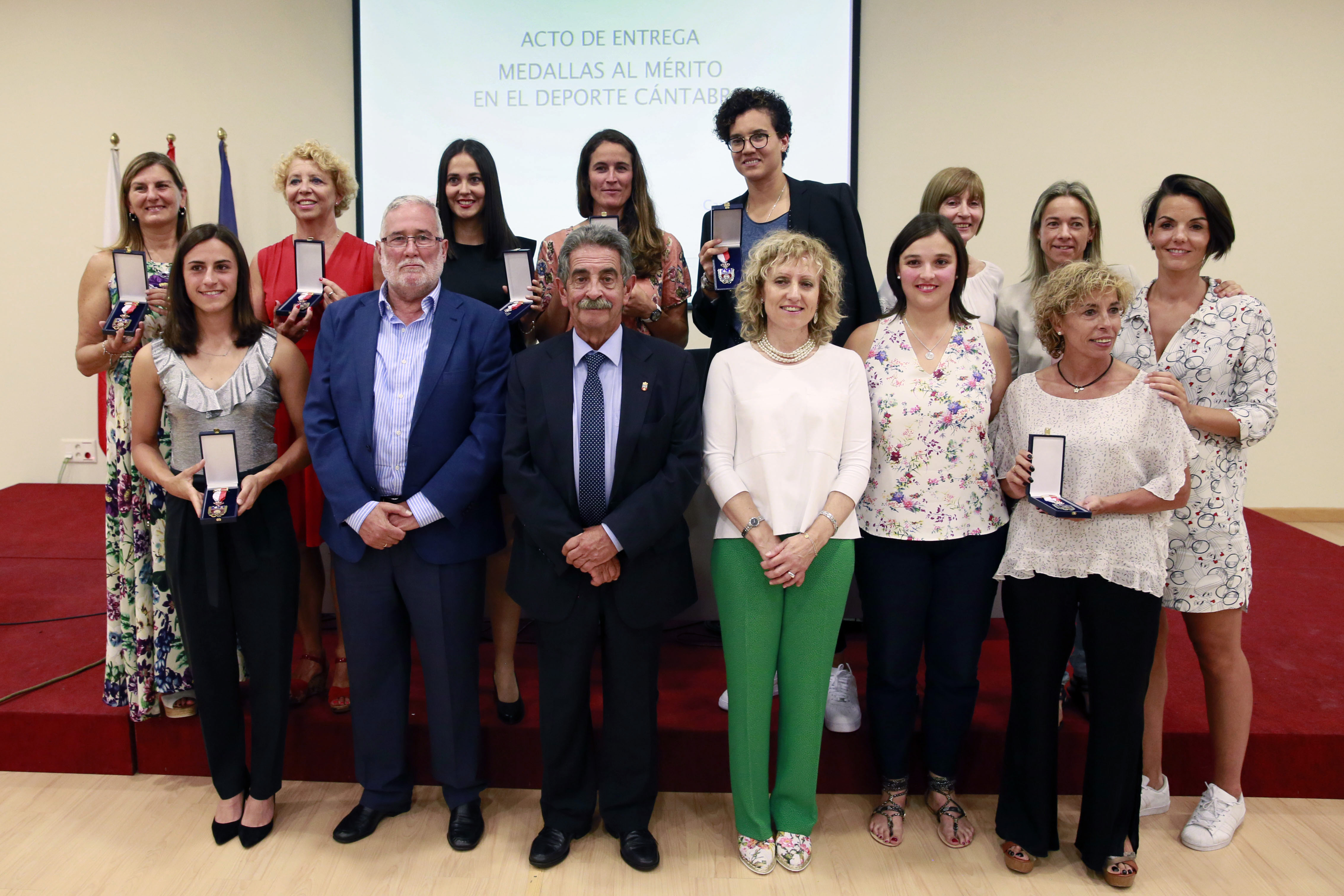 El presidente y la vicepresidenta han destacado el esfuerzo excepcional que supone ser mujer en el deporte.